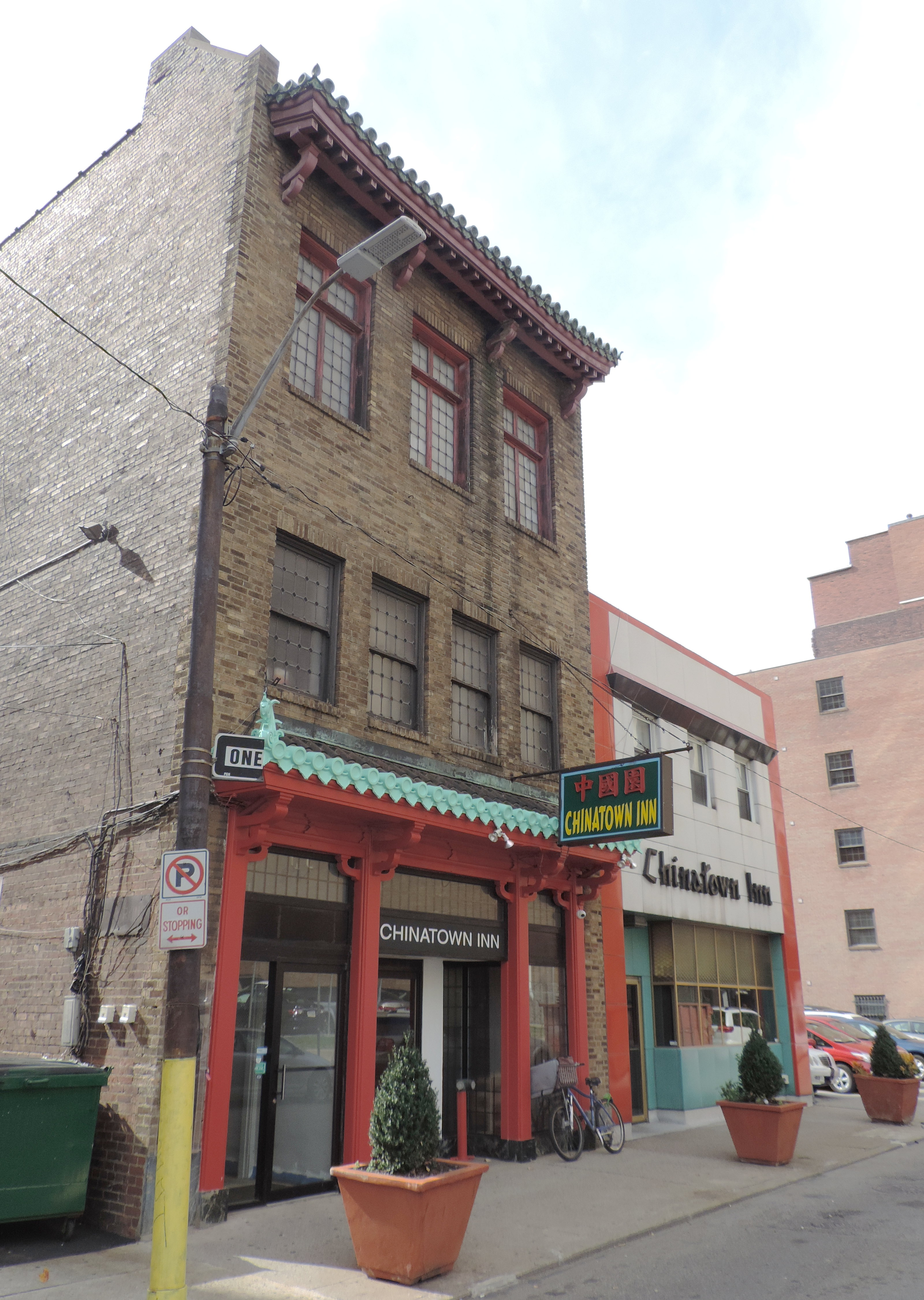 Looking west across street at restaurant.